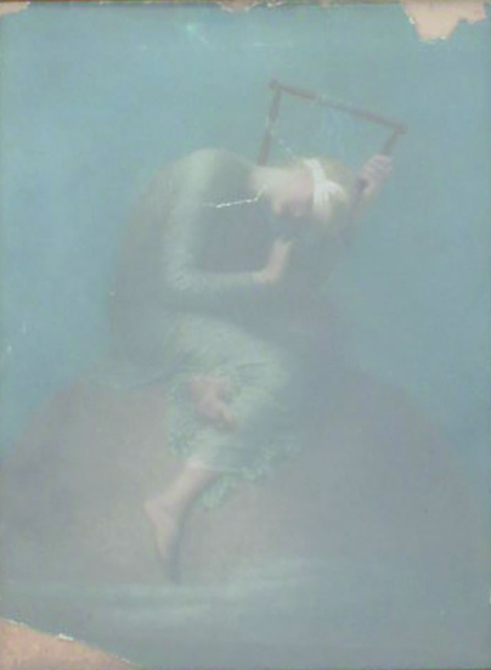 Platinotype reproduction of George Frederic Watts's Hope (1886)